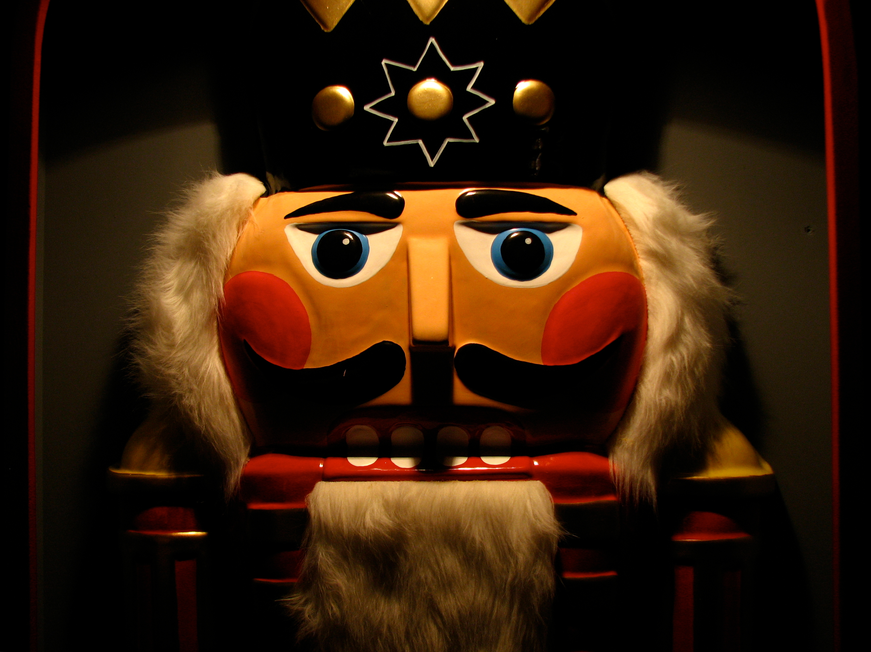 christmas, holiday, christmas market, nutcracker, 2008-12 -- Cologne Christmas Trip